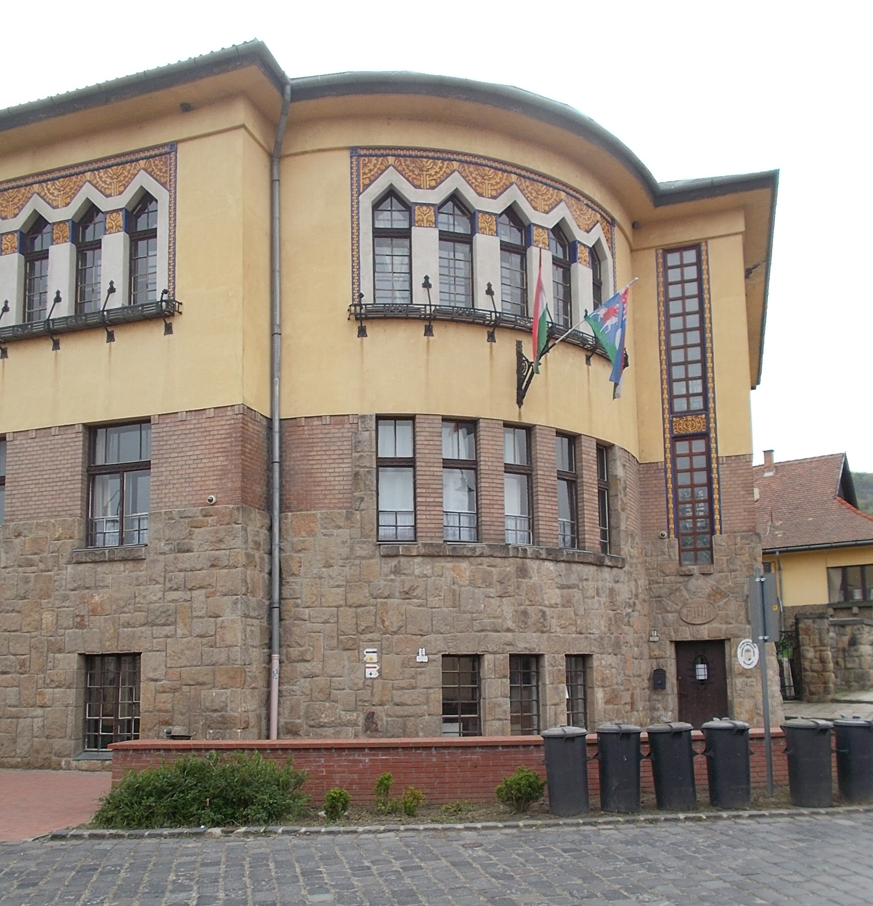 Kittenberger Kálmán Elementary School and Art School, built in 1914, Art Nouveau style. Ceramic building ornaments (owls with books, tulips, CoA) - Fehérhegy and Rákóczi Ferenc street corner, Nagymaros, Pest County, Hungary.